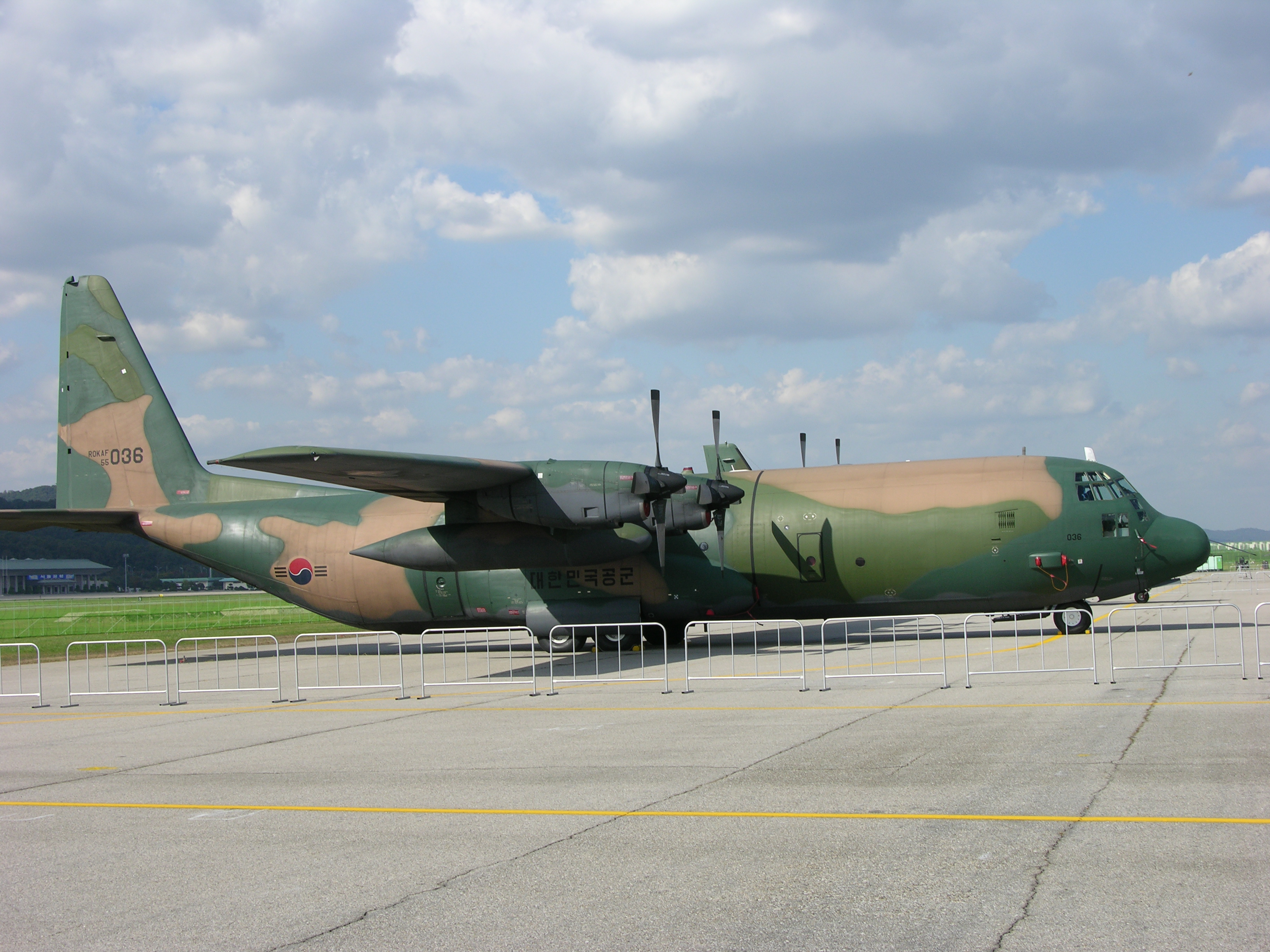 Seen in the static display at Seoul in 2005 I'd actually seen this machine when it was being built at Marietta many years earlier.